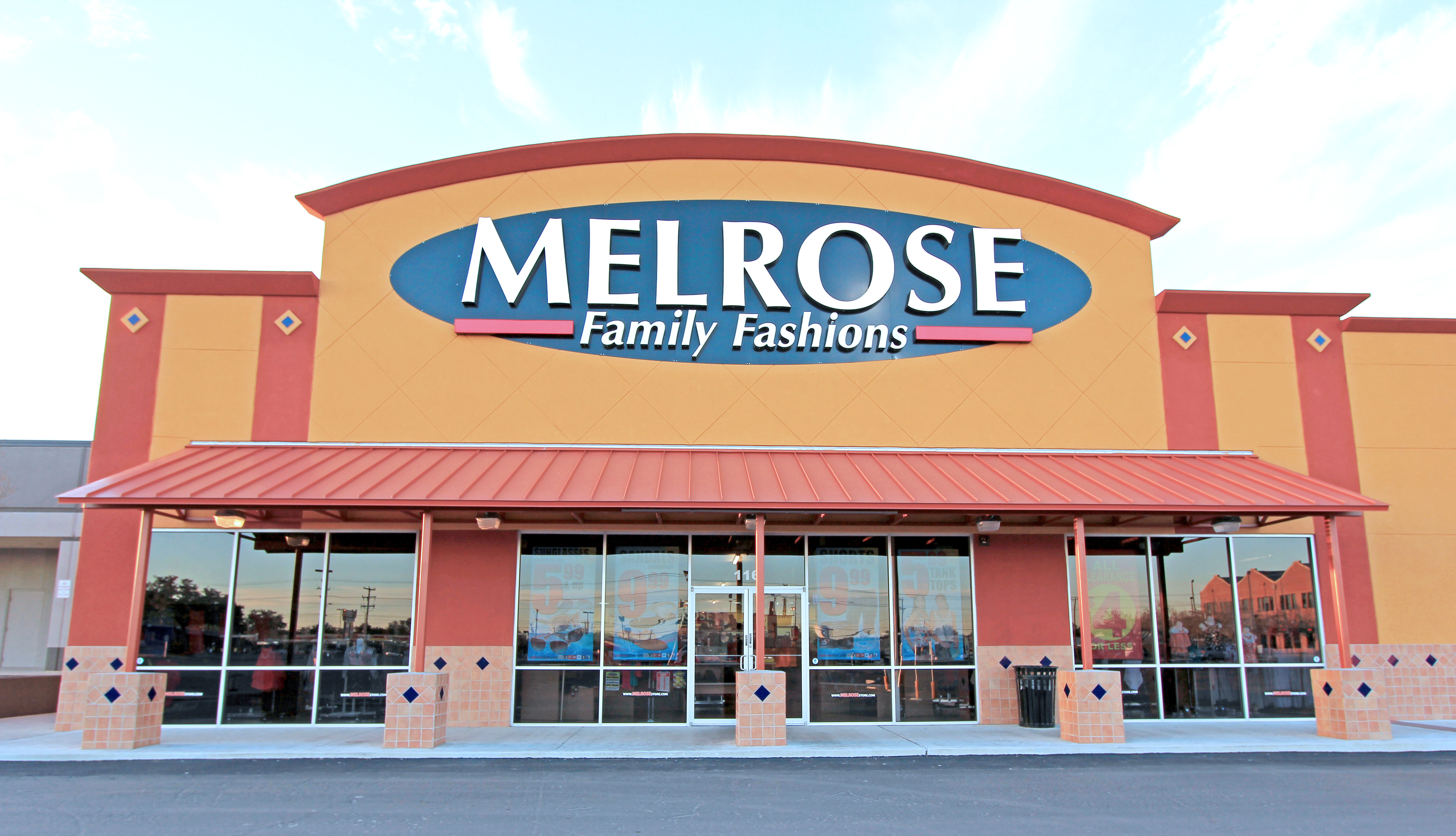 Melrose Family Fashions 5330 Walzem Rd, San Antonio TX 78218 Typical store front